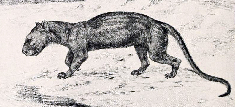 Crop of file in filename